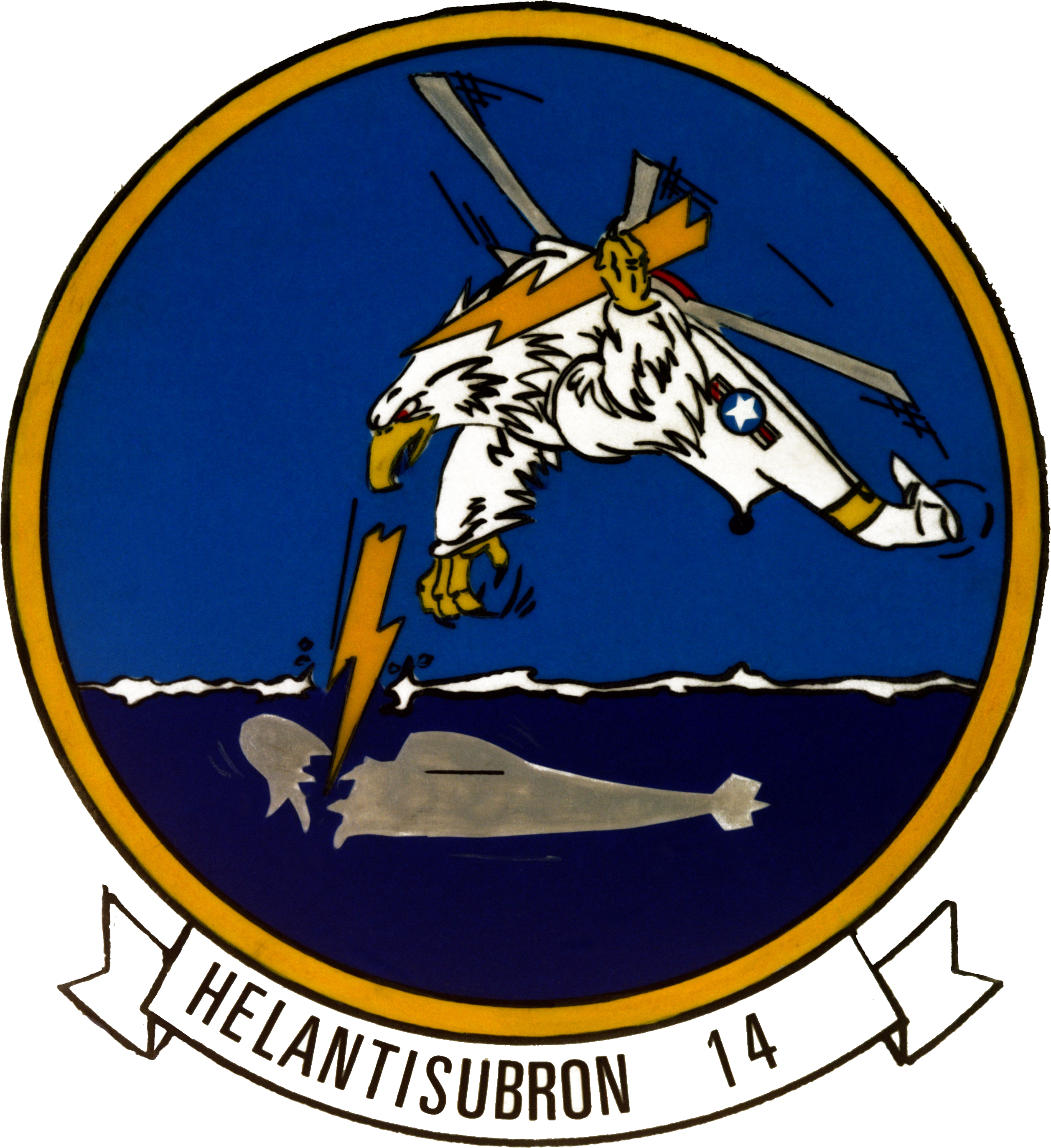 Insignia of the United States Navy Helicopter Anti-Submarine Squadron 14 (HS-14) "Chargers".